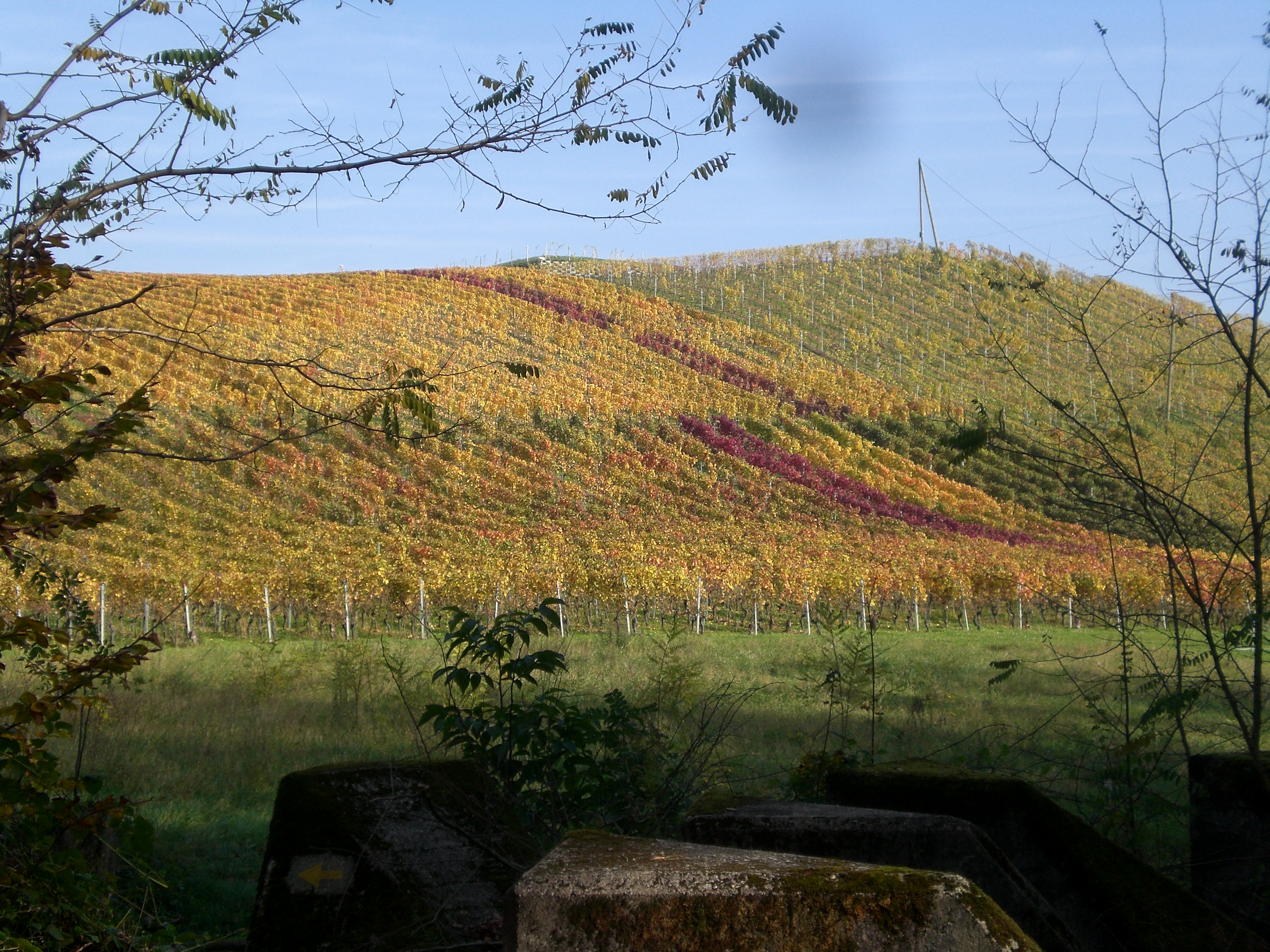 Vineyards of Begnins in Automn